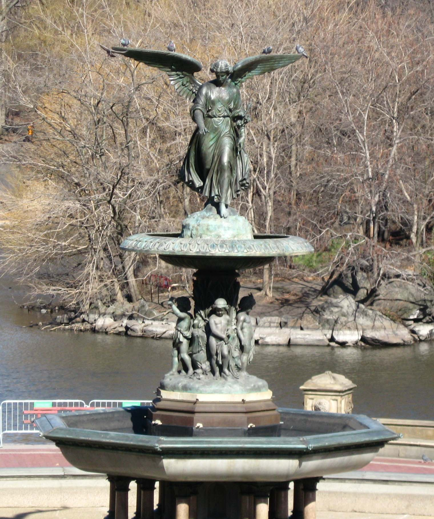 Bethesda Fountain concentrating on the angel on a sunny winter day. See also :Image:Bethesda Angel.jpg for a cloudy day.